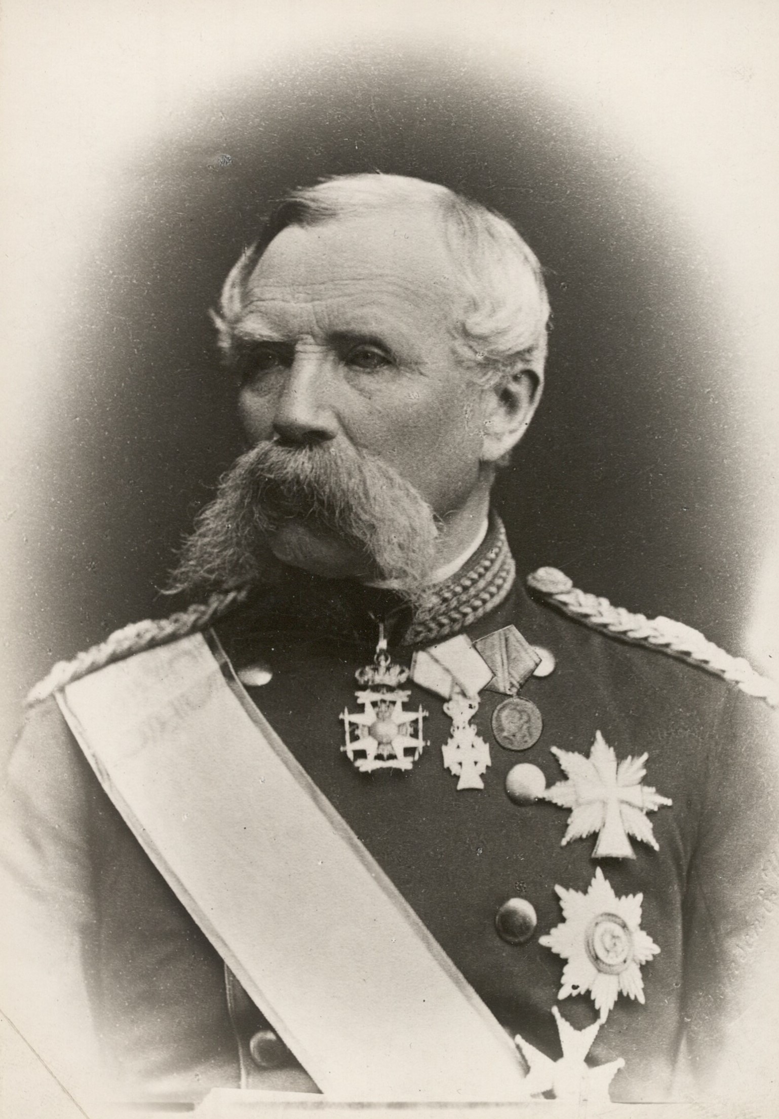 Johan Christopher Frederik Dreyer (1814-1898), Lieutenant General of the Royal Danish Army and Minister of War